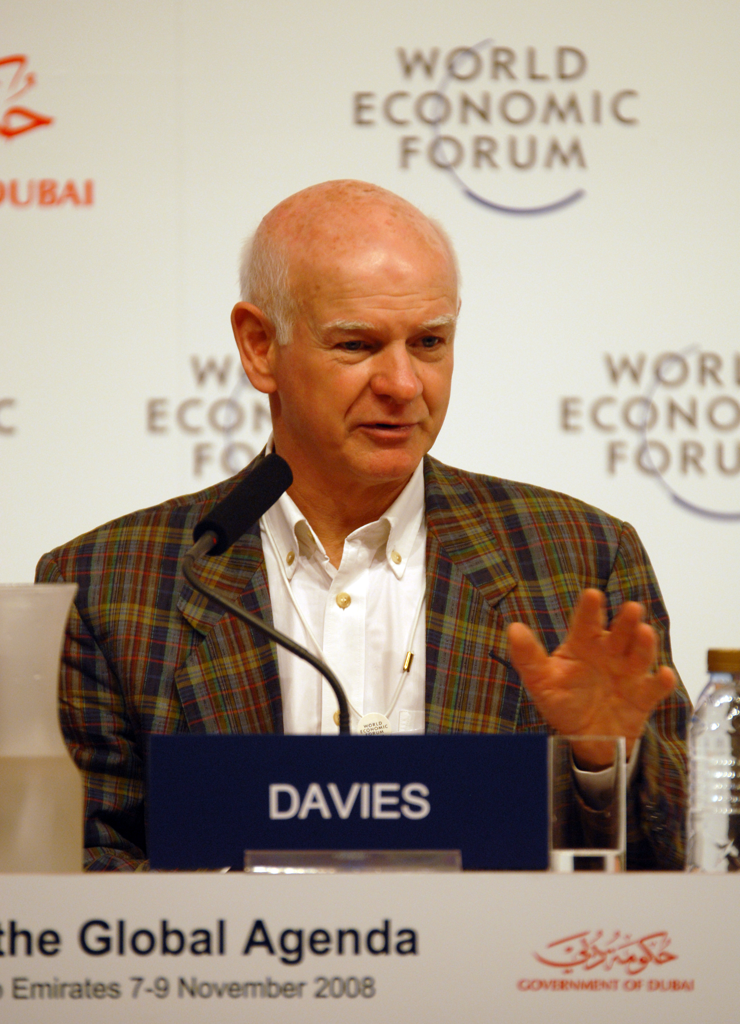 Sir Howard Davies, British businessman and economist, Director of the London School of Economics and Political Science, speaking at the World Economic Forum Summit on the Global Agenda 2008 in Dubai, United Arab Emirates.